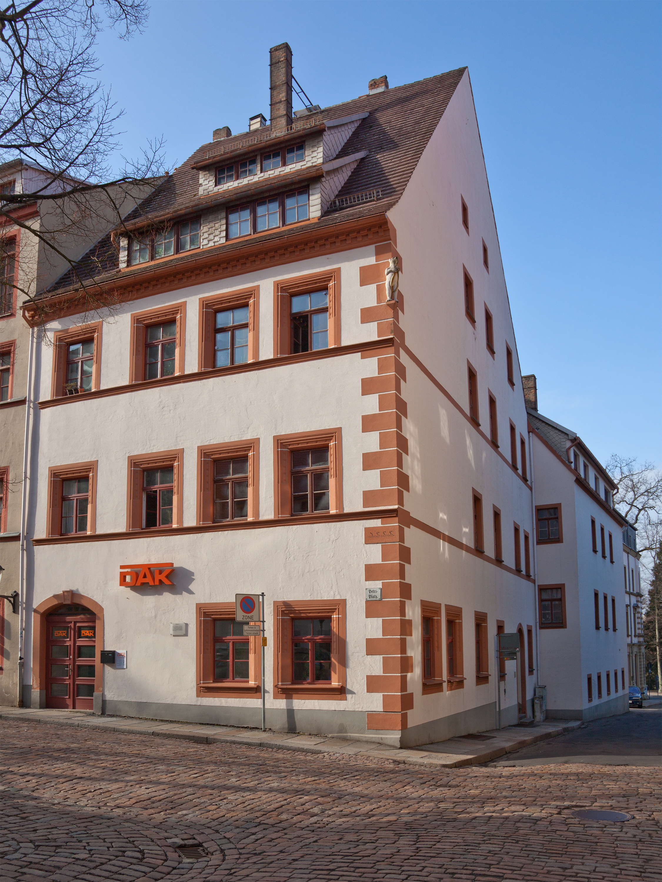 Freiberg, Waisenhausstraße 7